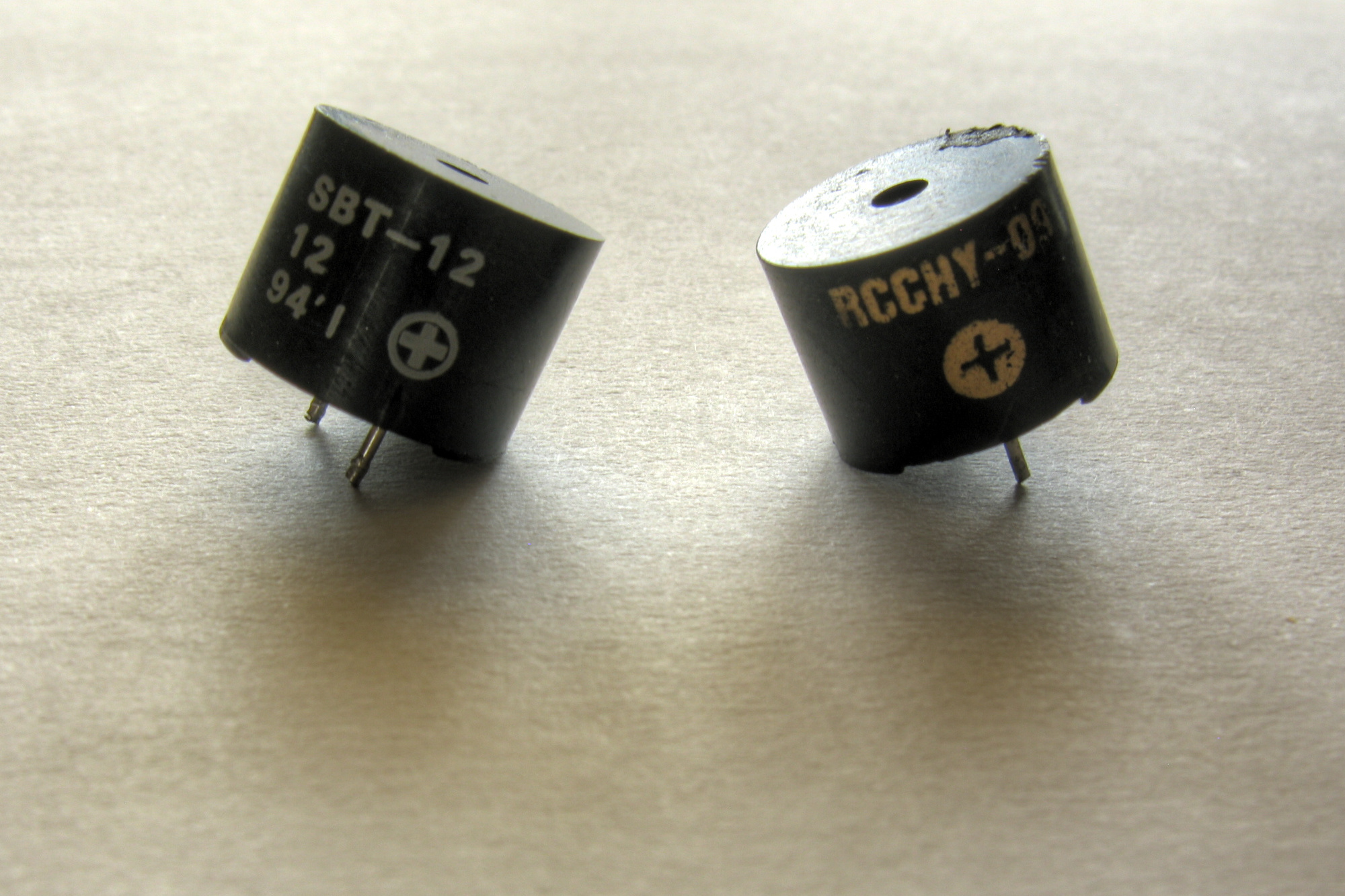 Typical electromagnetic buzzers.